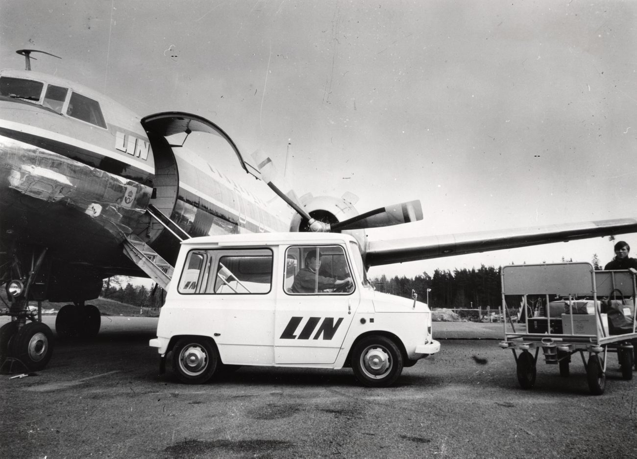 DIG93383 Kalmar Verkstadsaktiebolags "TJORVEN". The truck "Tjorven" from Kalmar Workshops, next to what looks to be SE-CRM, a Corvair belonging to Linjeflyg. Photo: Okänd/ Unknown